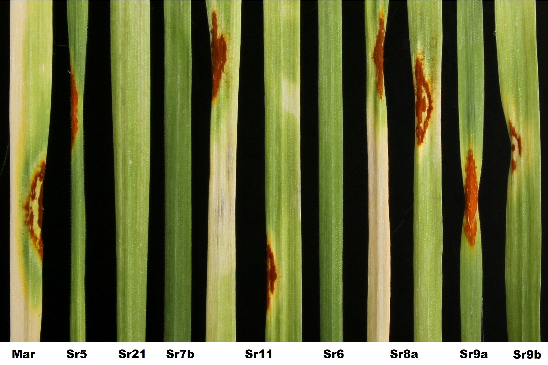 Wheat infected leaves with stem rust pathogen with a specific resistance gene